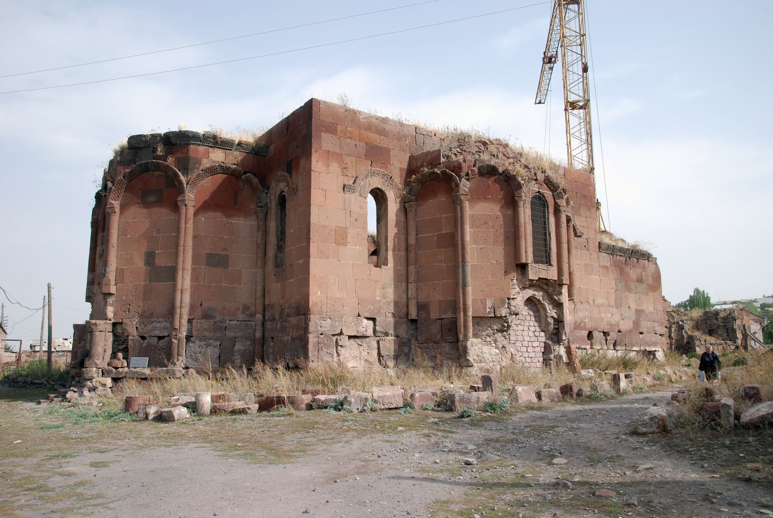 Surb Geworg or Surb Sargis